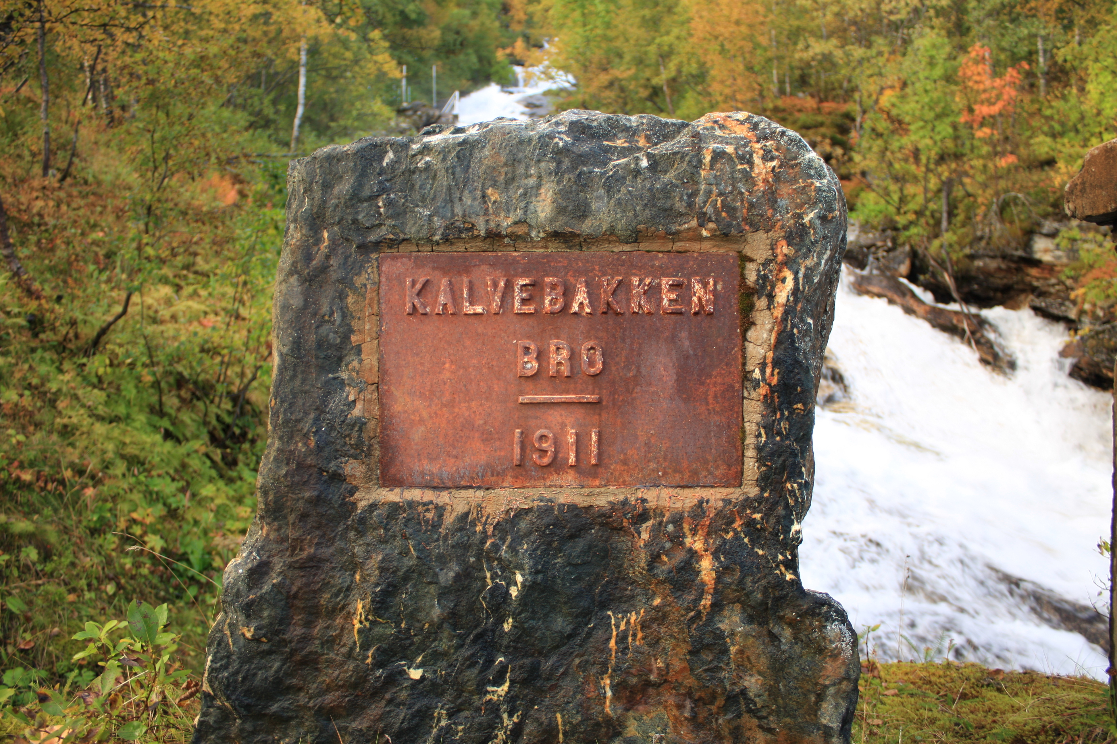 The old road sign to Kalvebakken bru (bridge) outside of Tromsø, Norway.